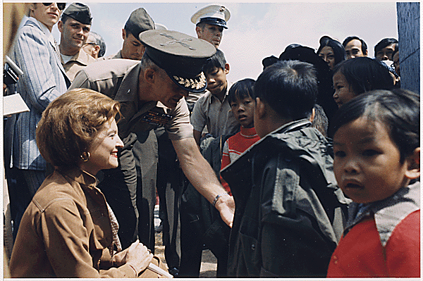 Mrs. Ford meets with Vietnamese refugee children at Camp Pendleton, California, 05/21/1975.